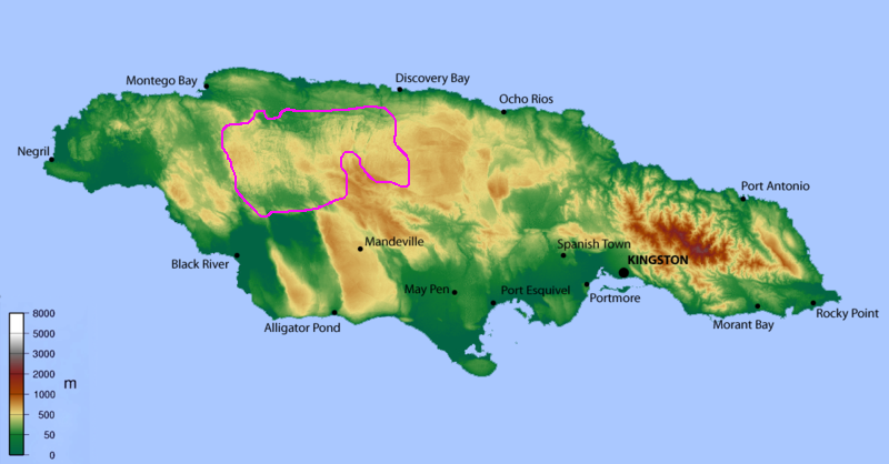 From Image:Jamaika.png, shape of the Cockpit Country in inner Jamaica